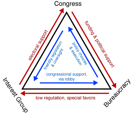 Diagram of an iron triangle in government.